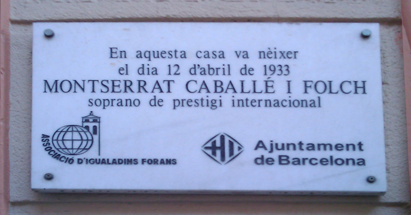 A plaque in Gràcia, Barcelona, showing marking the building where Montserrat Caballé i Folch was born.